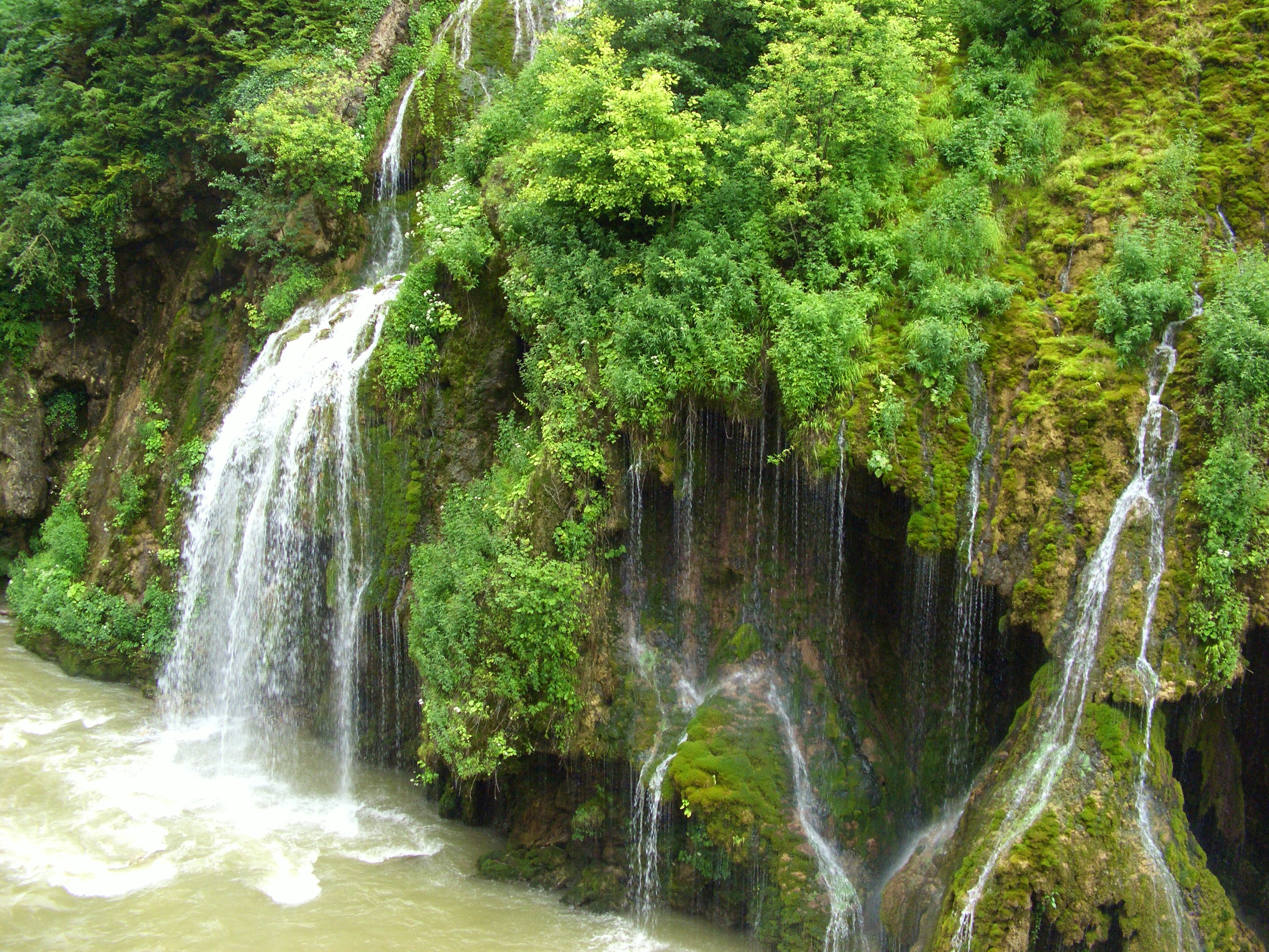 An amazing waterfall on a small brach of Aksu Stream which flows up to Black Sea in Aksu town near Giresun city center. The Aksu borns from Giresun Mountain Chains in Şebinkarahisar and Alucra which are the districts of Giresun province located in southern part of the province. This beatiful stream has hundreds of small branches on it. Most of these branches makes wonderful waterfalls in the adjacement points. This photo taken between Pinarlar and Sariyakup villages.